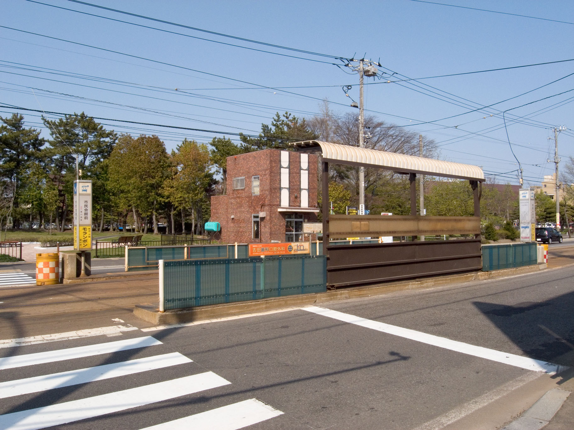 Shimin-Kaikan Mae station in Hakodate tram, Hokkaido, Japan